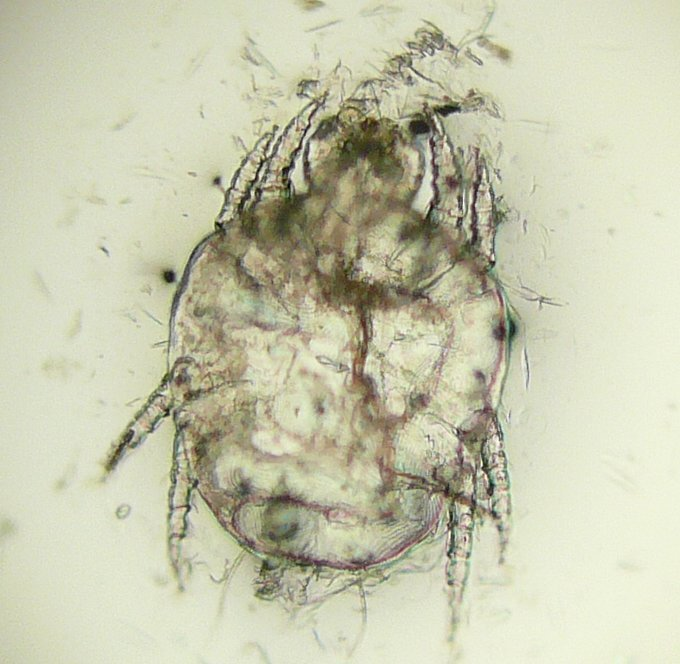 Cheyletiella sp. (probably C. yasguri, since it came off a dog).